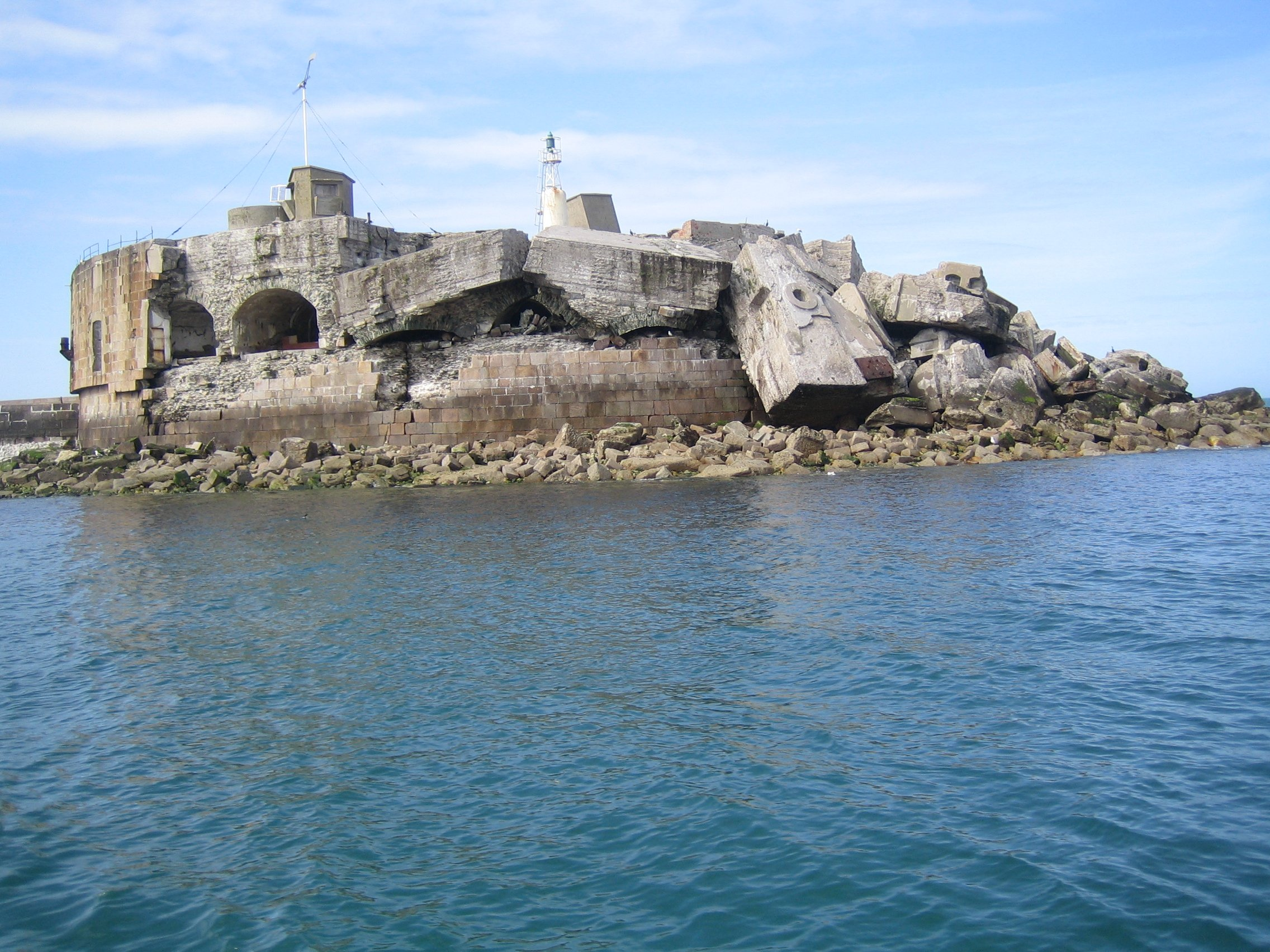 Rade de Cherbourg (Cherbourg roadstead, France) : Fort de l'Est (East end of the long sea wall), half-destroyed during the Second World War